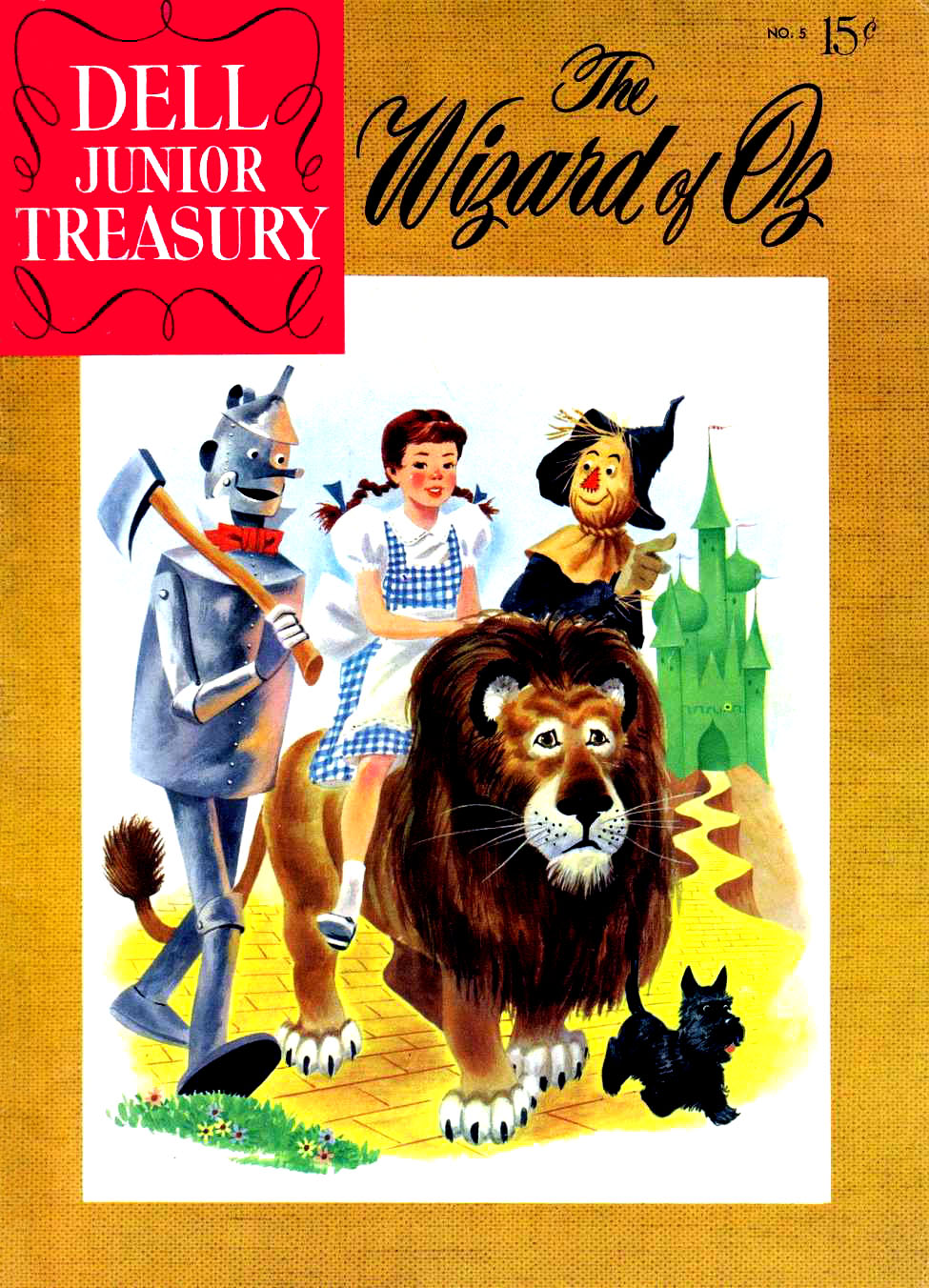 Dorothy and friends follow the Yellow Brick Road in The Wizard of Oz (Dell Comics, June 1956). Cover art by Mel Crawford.